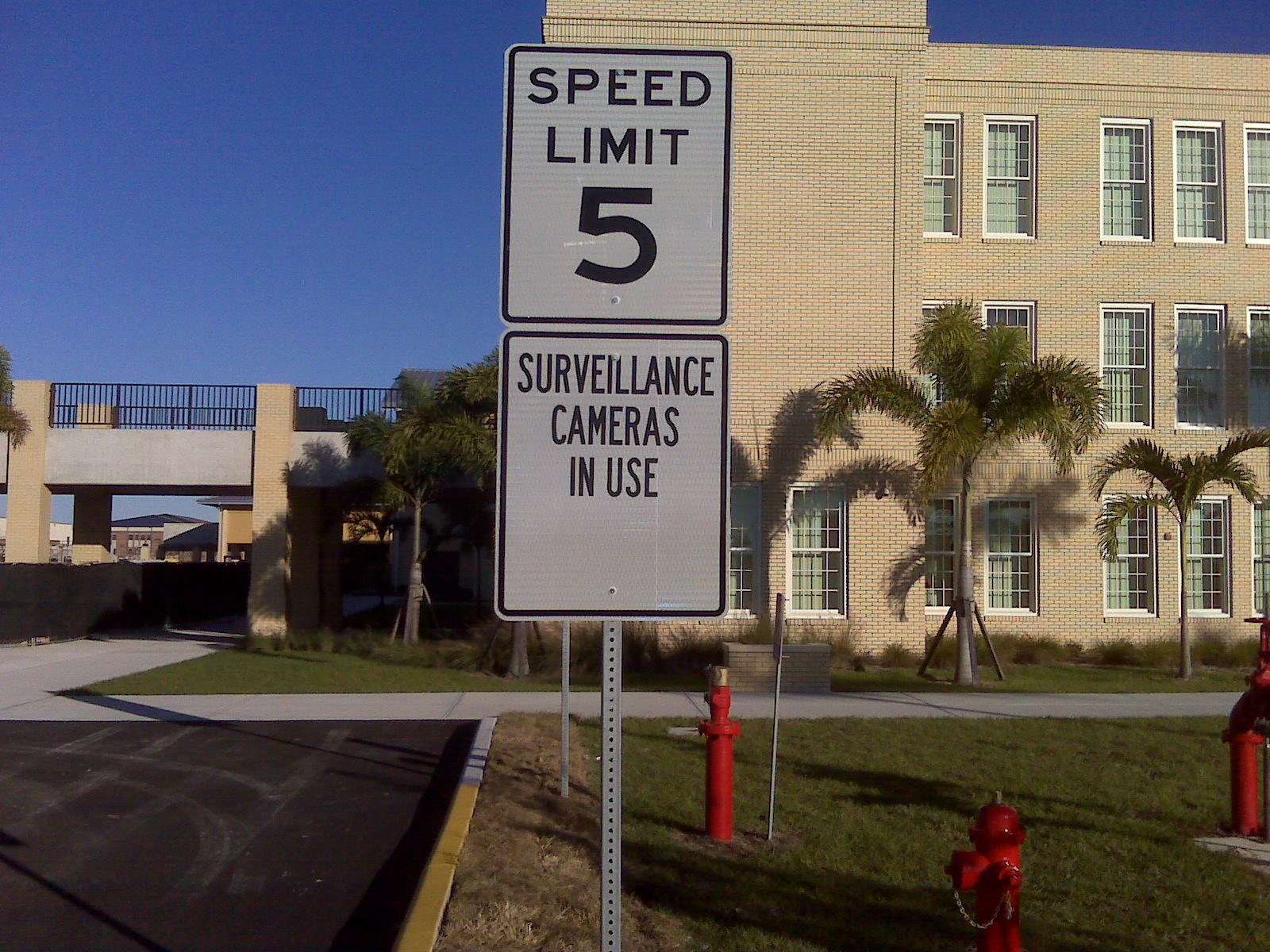 Speed limit sign and "Surveillance Cameras In Use" signs at the entrance of the visitors' parking lot at Charlotte High School (Punta Gorda, Florida). Could be useful in a wide range of articles.